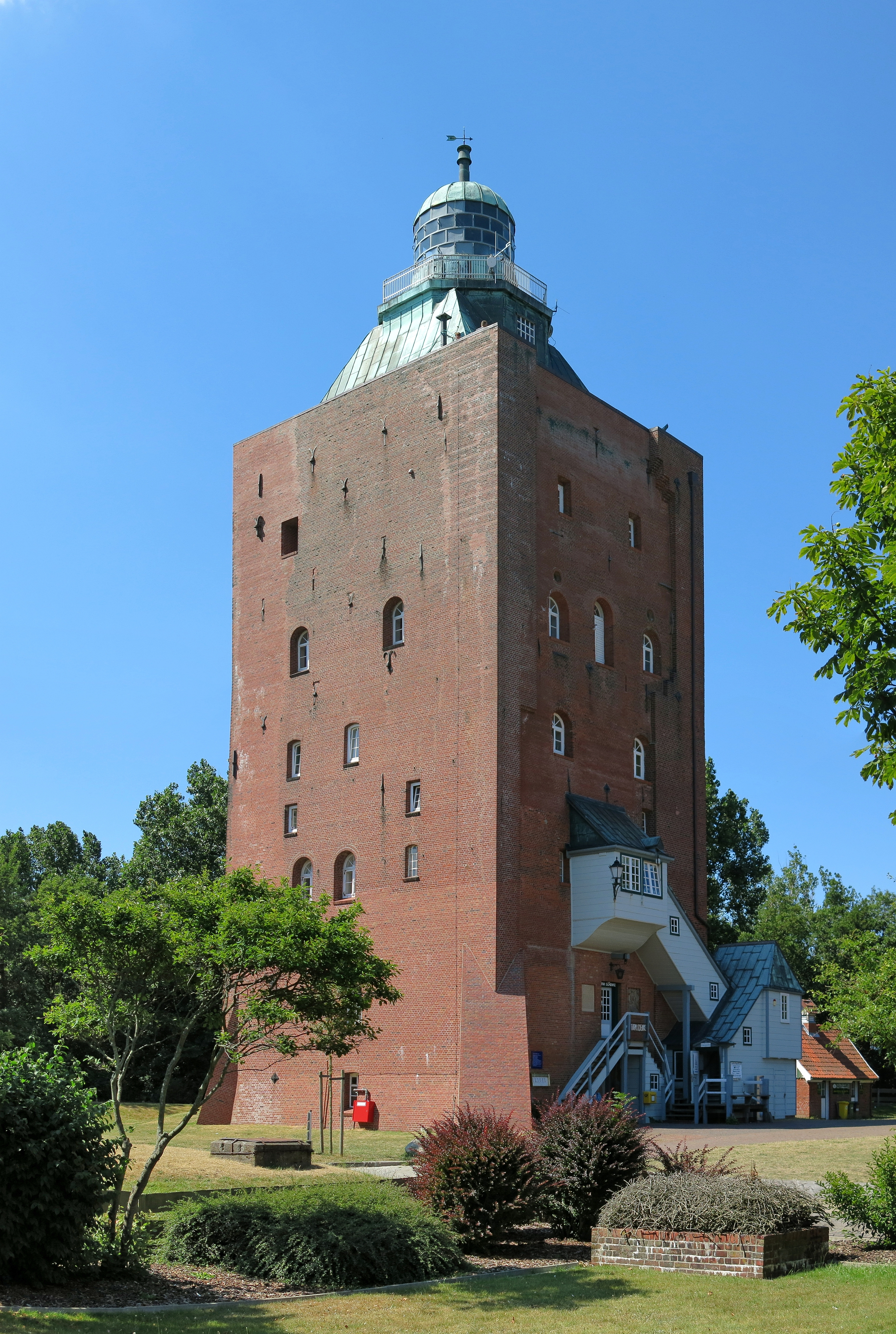 Great Tower Neuwerk, seen from southeast